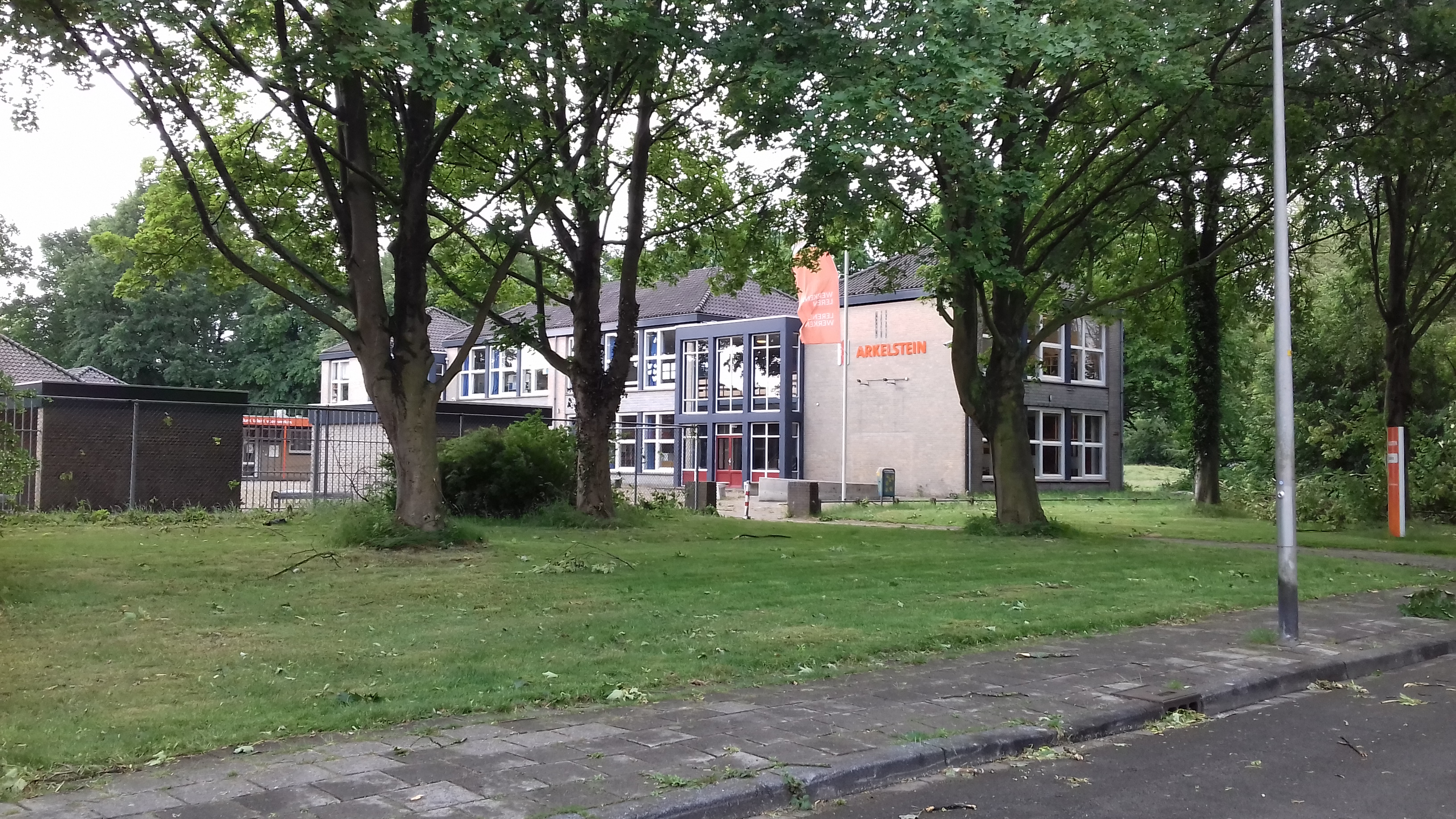 School building of the Etty Hillesum Lyceum location Arkelstein in Deventer, The Netherlands